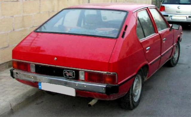 Hyundai Pony 1st Generation